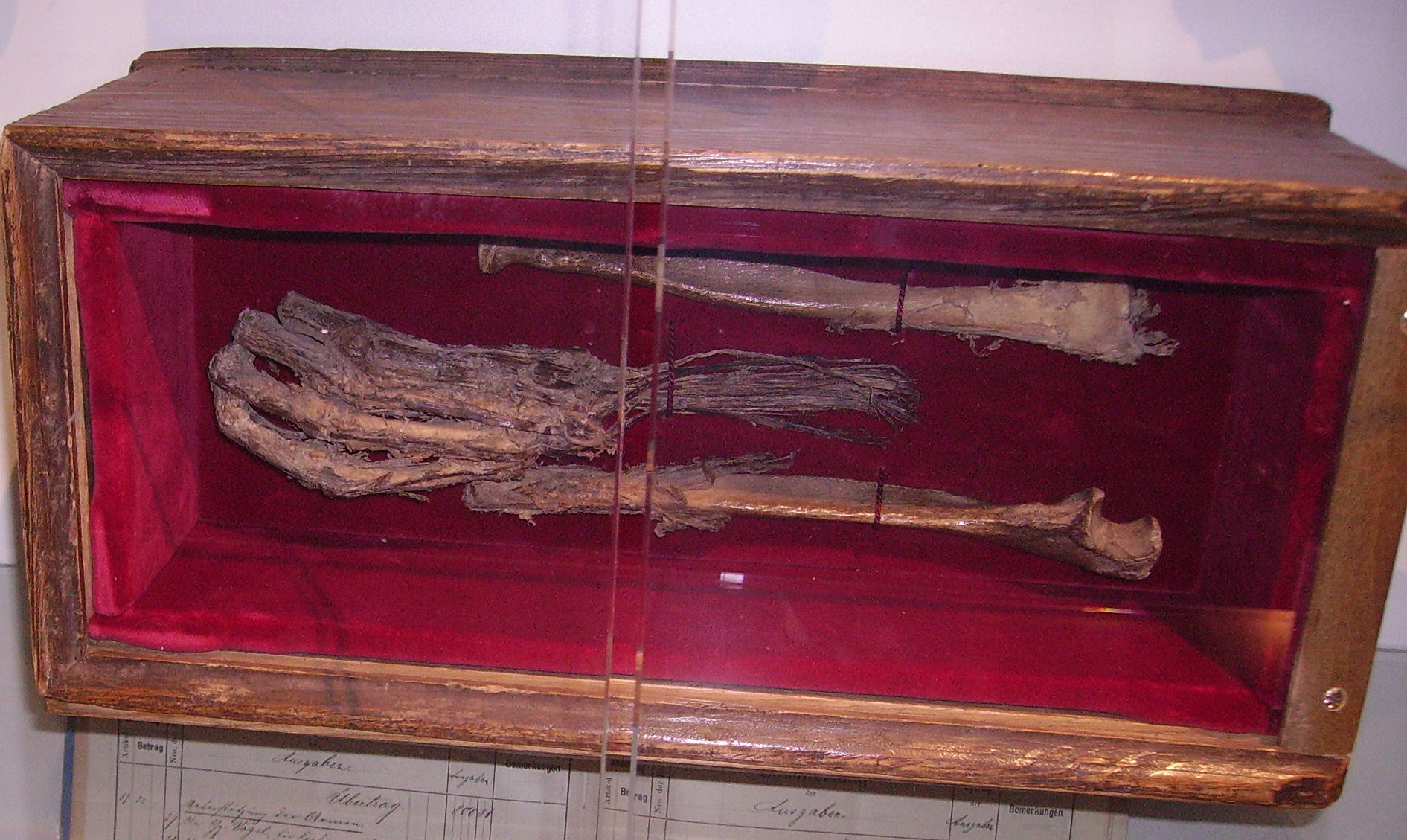 rotten hand in Eisenberg, Germany